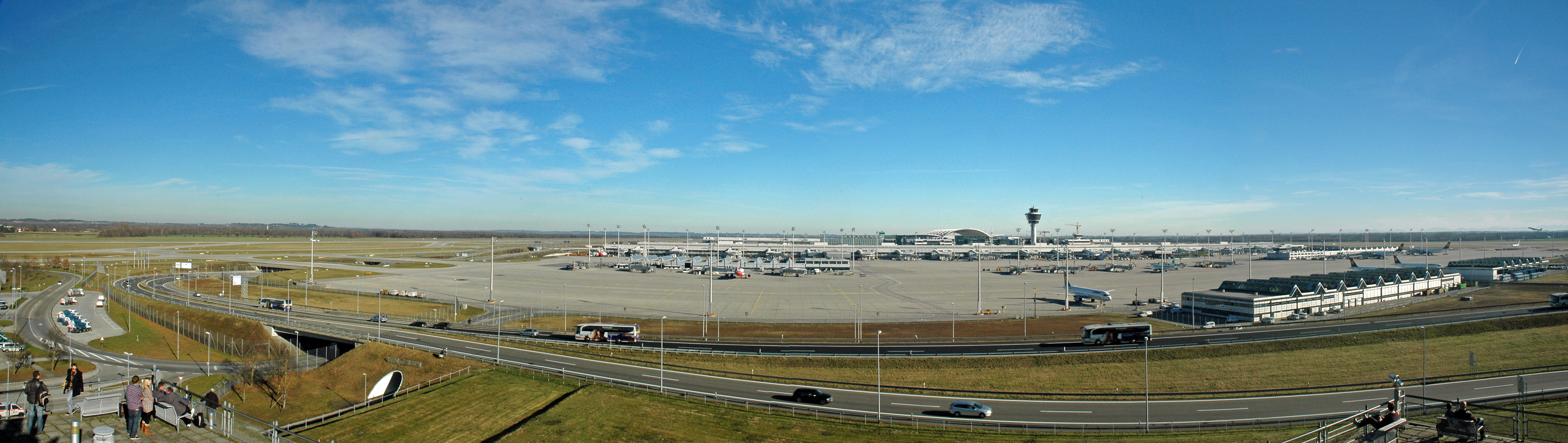 Munich Airport (MUC) - Terminal 1 with runway (Panorama)